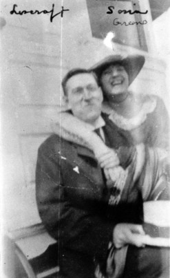 This is a photograph of H. P. Lovecraft and Sonia Greene taken on 5 July 1921.